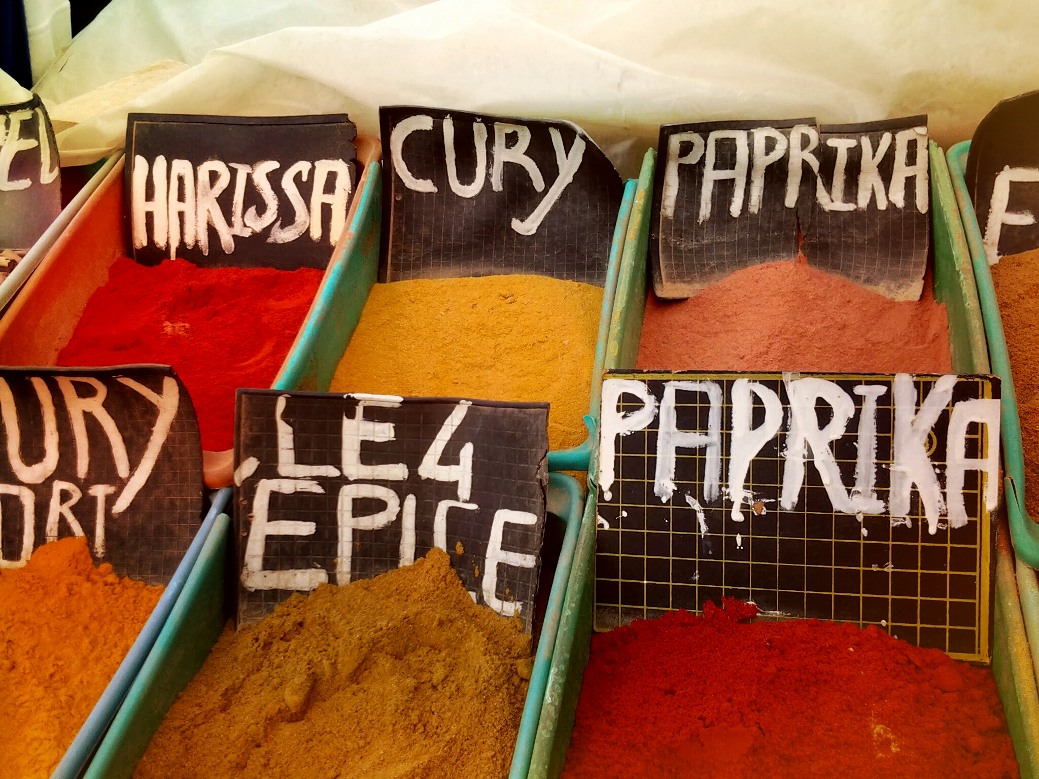 Spice shop at Douz This is an image of food from Tunisia